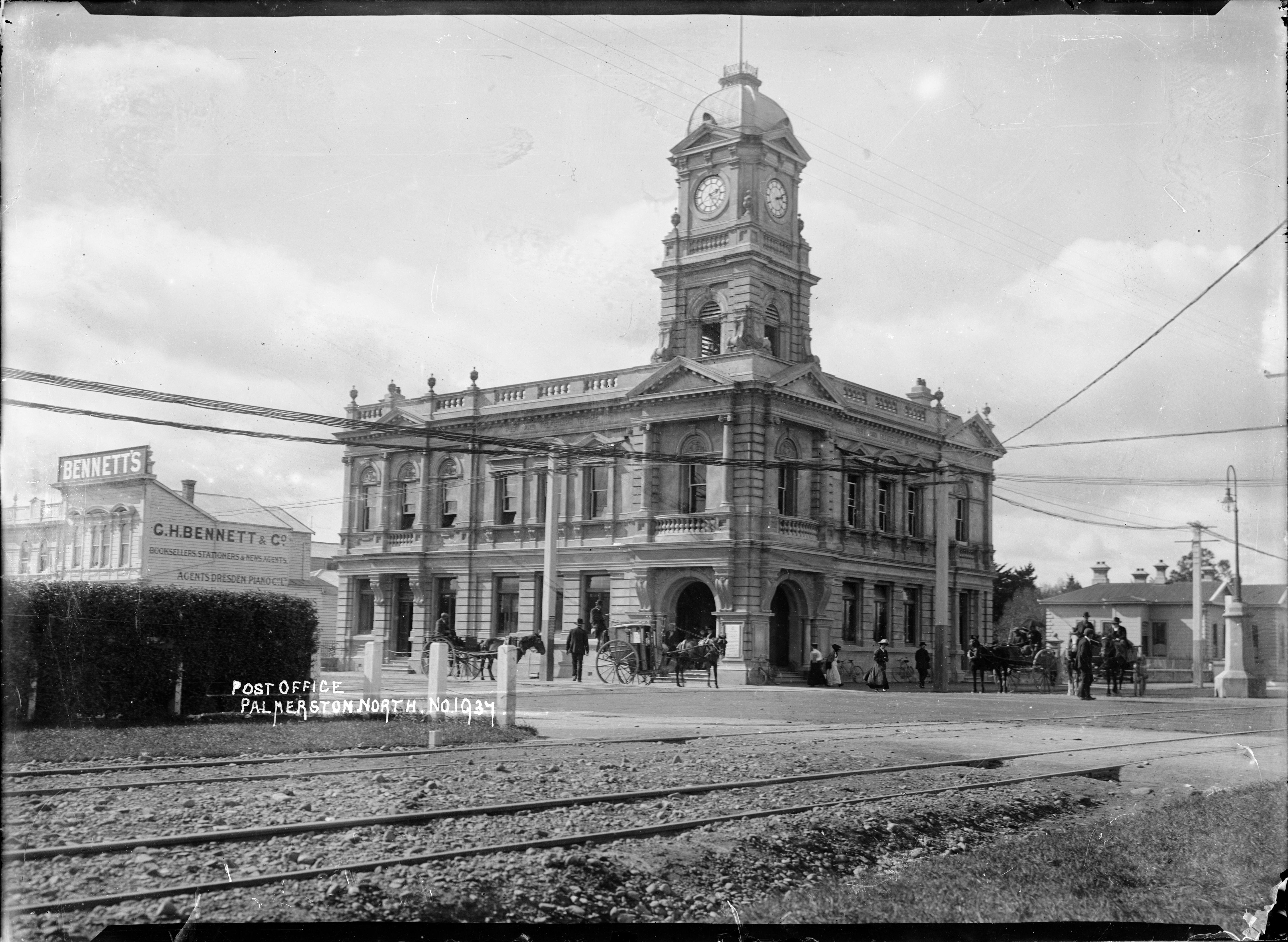 View of the (Chief) Post Office in Palmerston North, (opened in 1906) with the business premises of G H Bennett (booksellers, stationers & newsagents) behind a hedge centre left. There are a number of people, and horses & carriages outside the post office. Photograph taken by William A Price. Inscriptions: Inscribed - Photographer's title on negative -bottom left: Post Office. Palmerston North. No. 1937. Quantity: 1 b&w original negative(s). Physical Description: Dry plate glass negative Post Office, Palmerston North. Price, William Archer, 1866-1948 :Collection of post card negatives. Ref: 1/2-001422-G. Alexander Turnbull Library, Wellington, New Zealand.